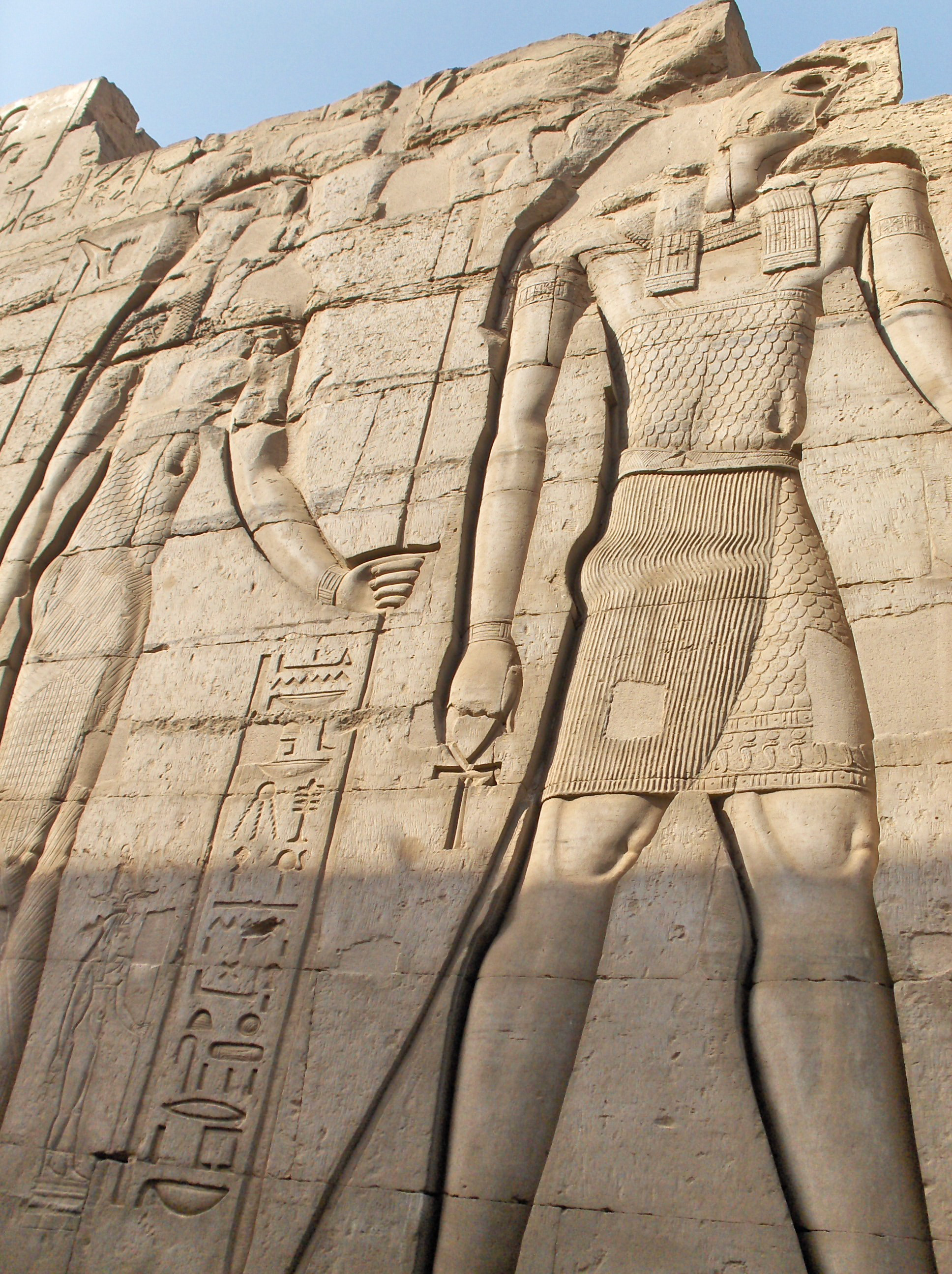 God Horus, from the temple in Kom Ombo